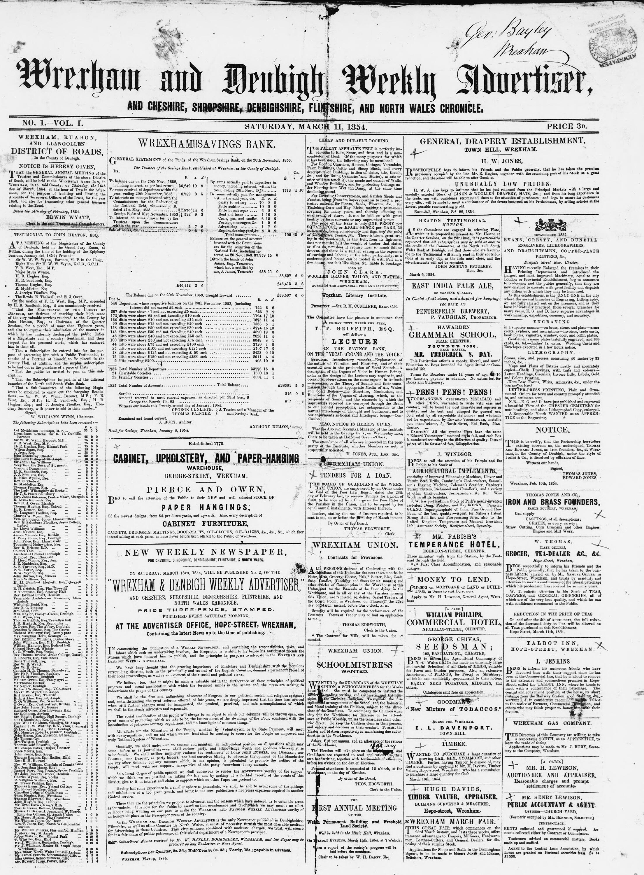 Front page of the earliest surviving copy of the Welsh newspaper Wrexham and Denbigh Weekly Advertiser